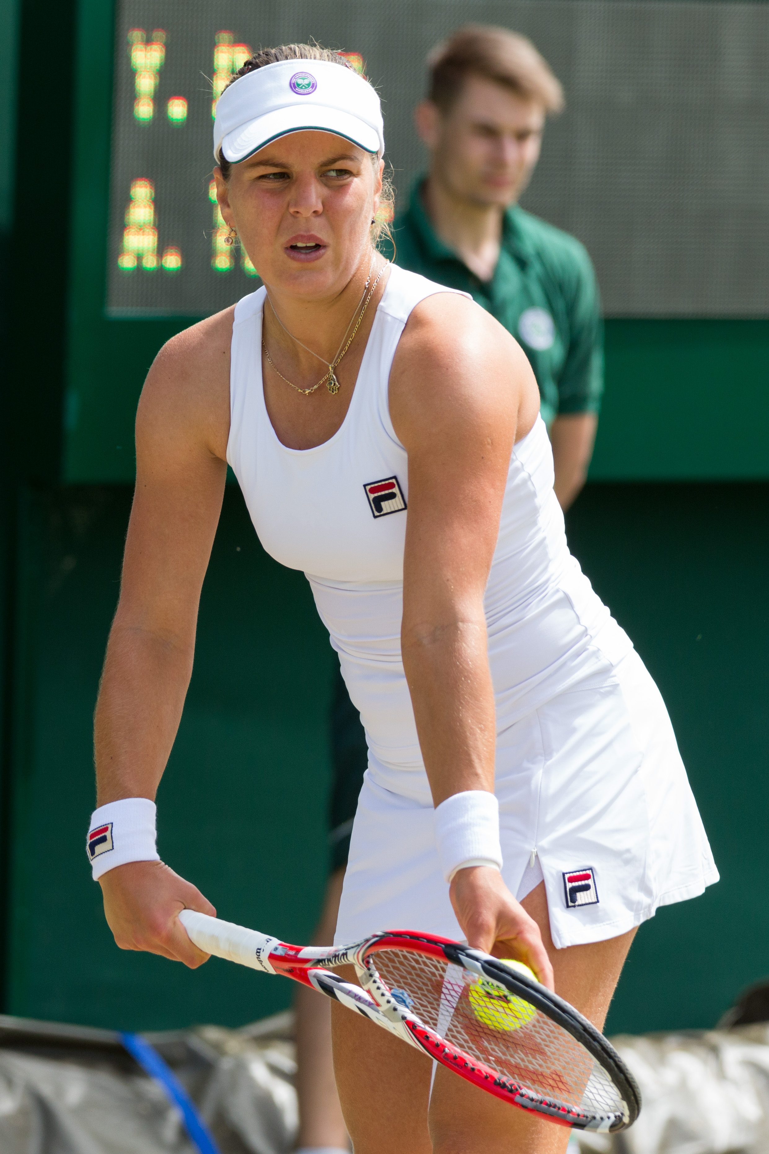 Anna Tatishvili competing in the third round of the 2015 Wimbledon Qualifying Tournament at the Bank of England Sports Grounds in Roehampton, England. The winners of three rounds of competition qualify for the main draw of Wimbledon the following week.